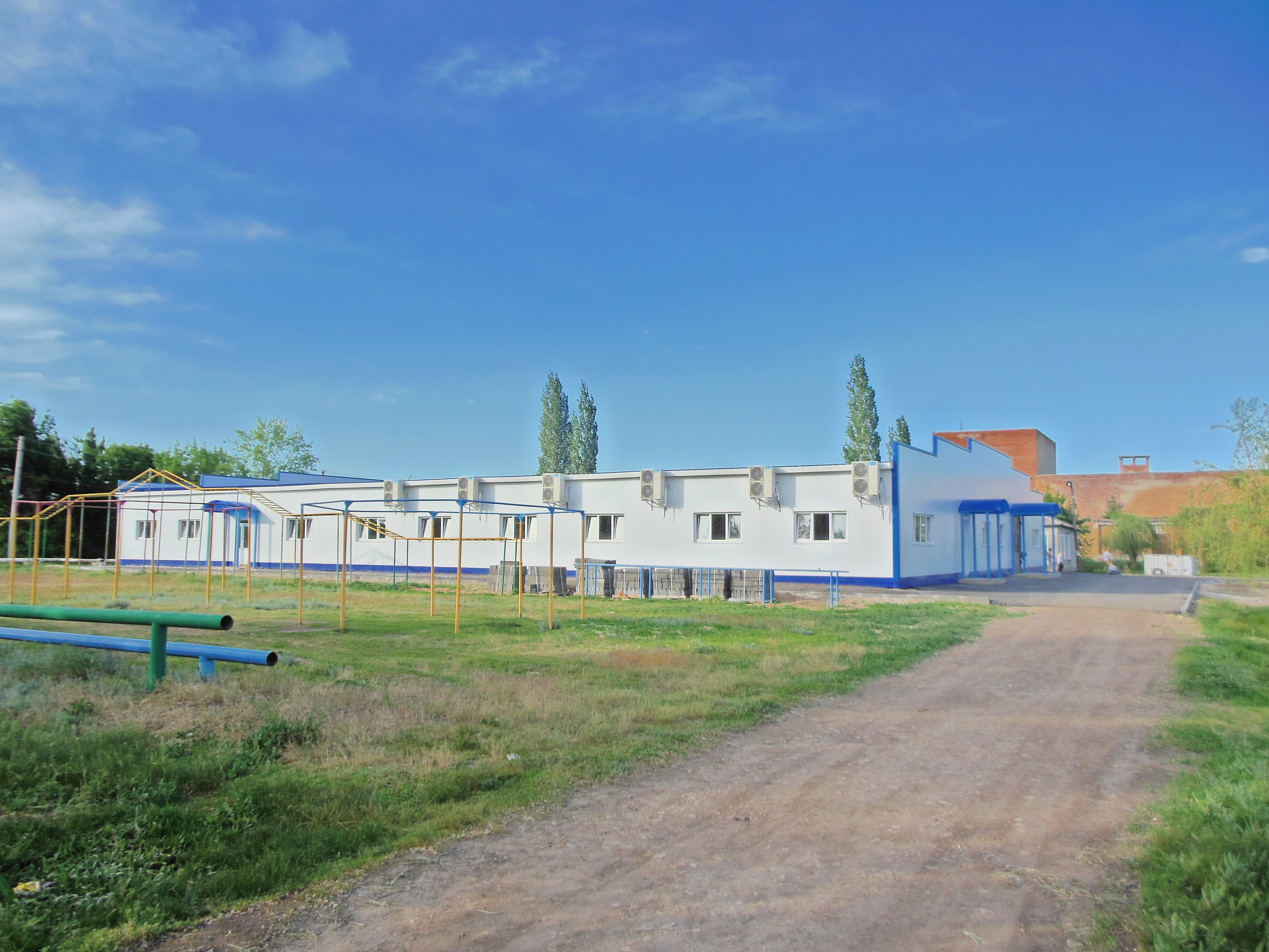 training centre